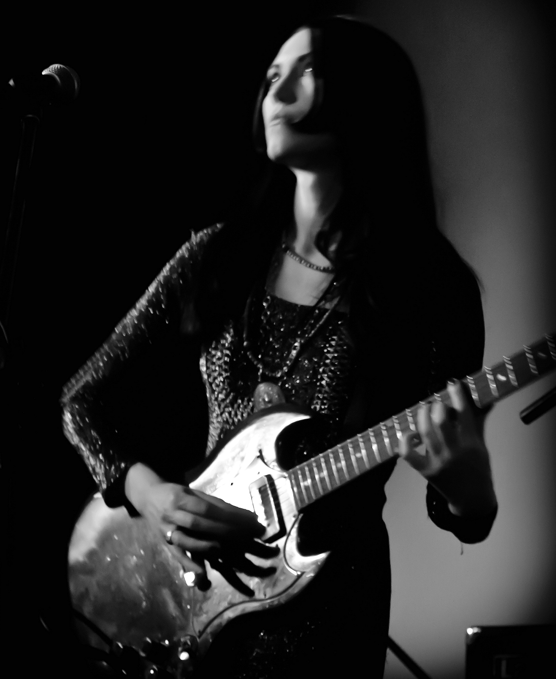 Rosalie Cunningham and George Hudson of Purson